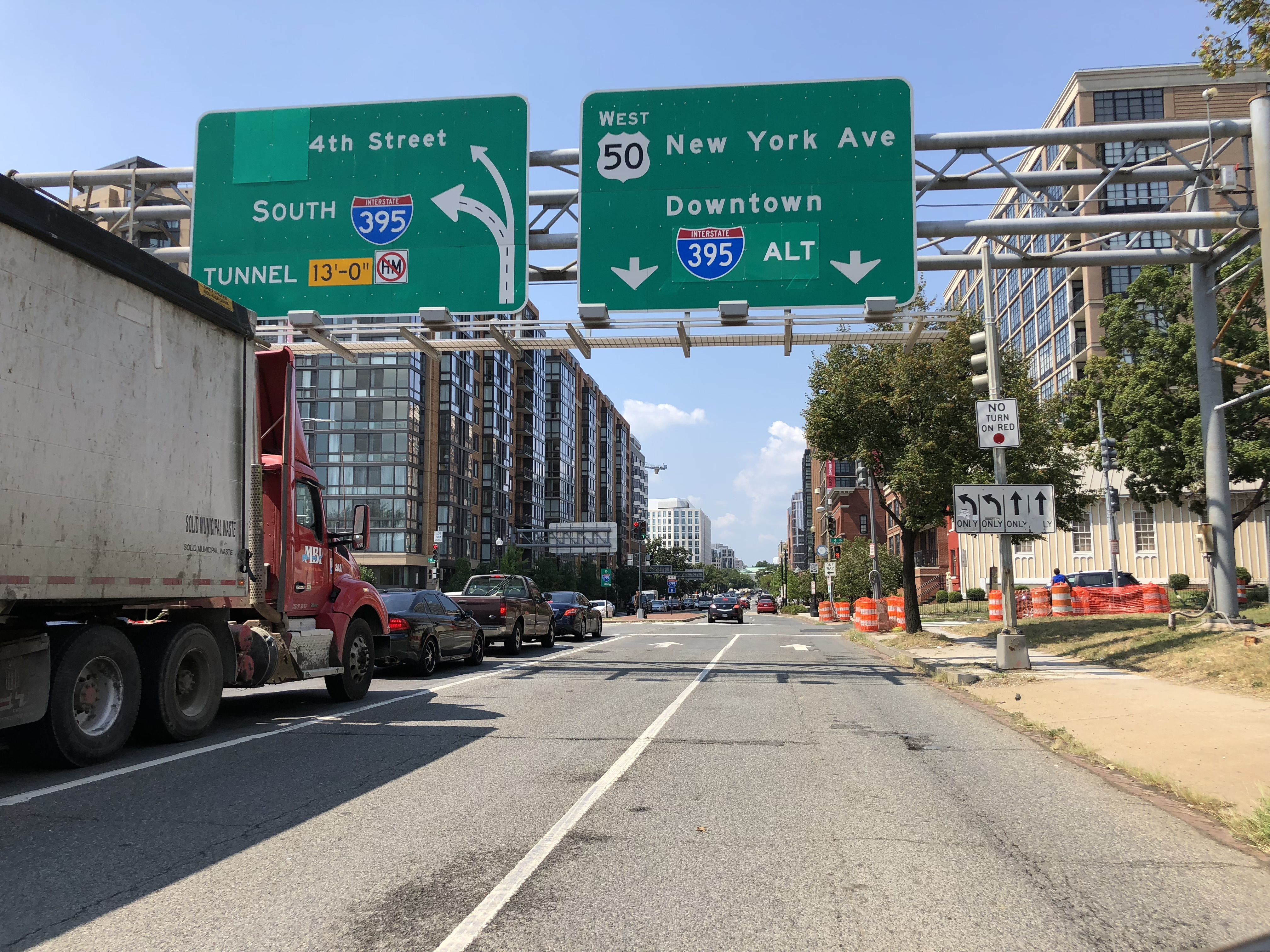 View south along U.S. Route 1 Alternate and west along U.S. Route 50 (New York Avenue) at the north end of Interstate 395 (Center Leg Freeway) in Washington, D.C.